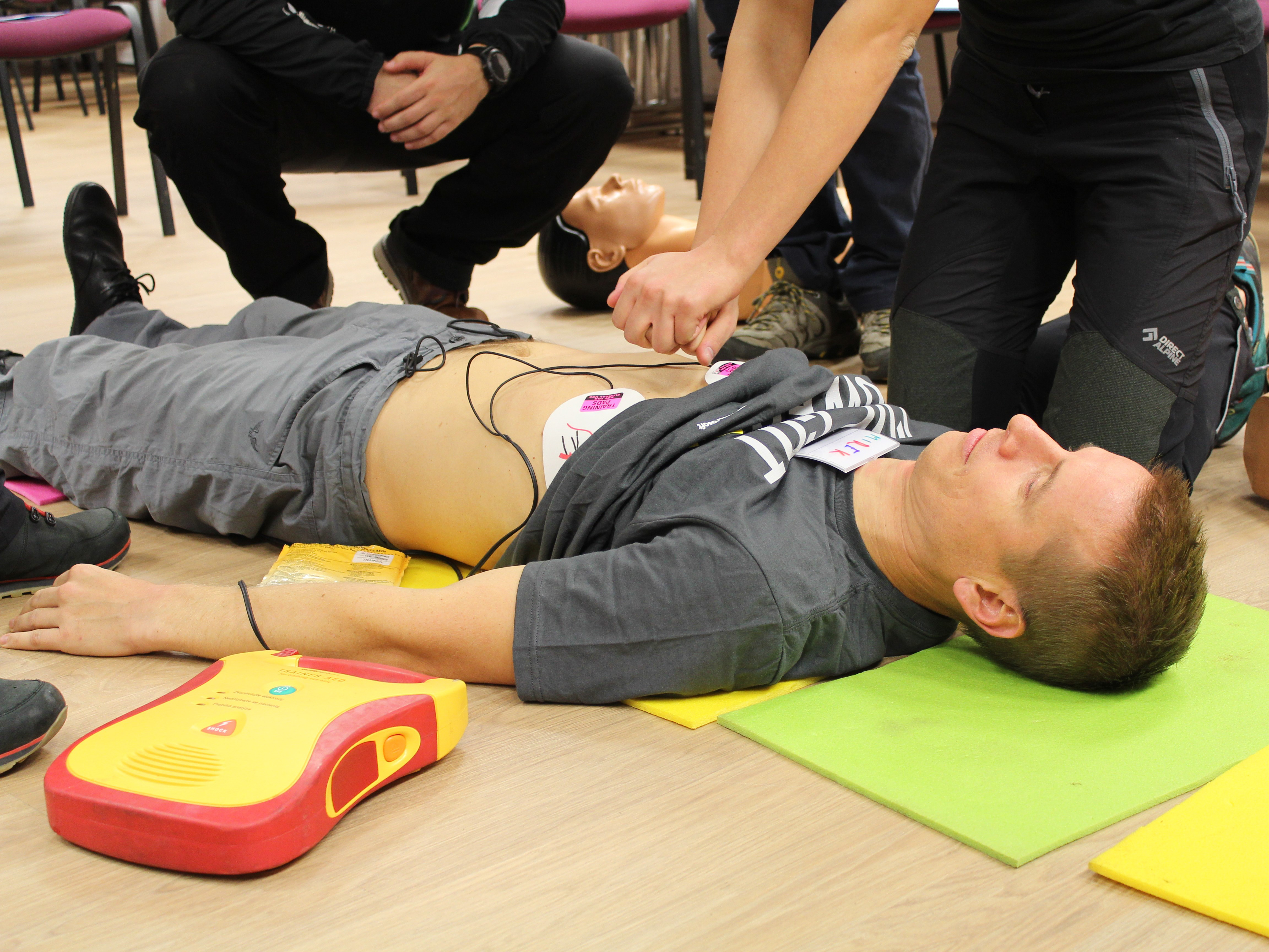 Provádění laické neodkladné resuscitace je stále častěji spojováno s použitím AED (automatizovaný externí defibrilátor). Na obrázku jsou vidět jak samotný přístroj, tak nalepovací elektrody přiložené na hrudník pacienta.